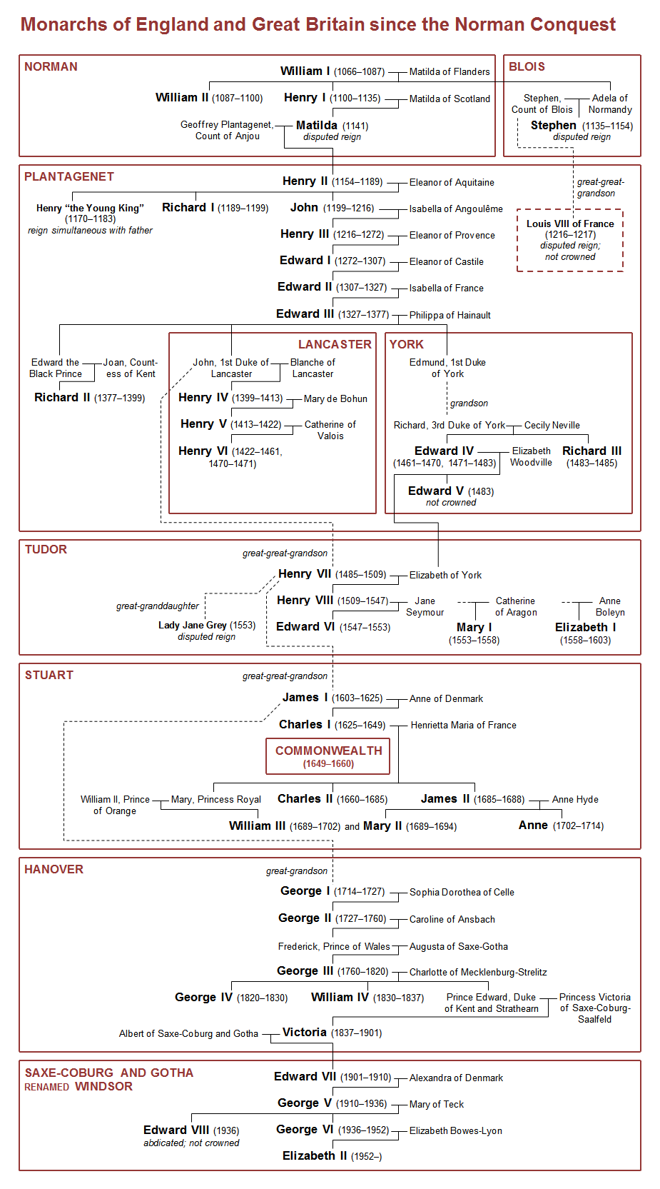 Family tree of monarchs of England and Great Britain since the Norman Conquest